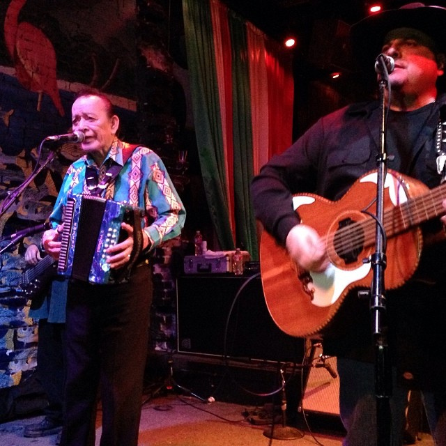 Flaco Jimenez y Max Baca sing a Buck Owens song @ Flamingo Cantina, Austin Tx